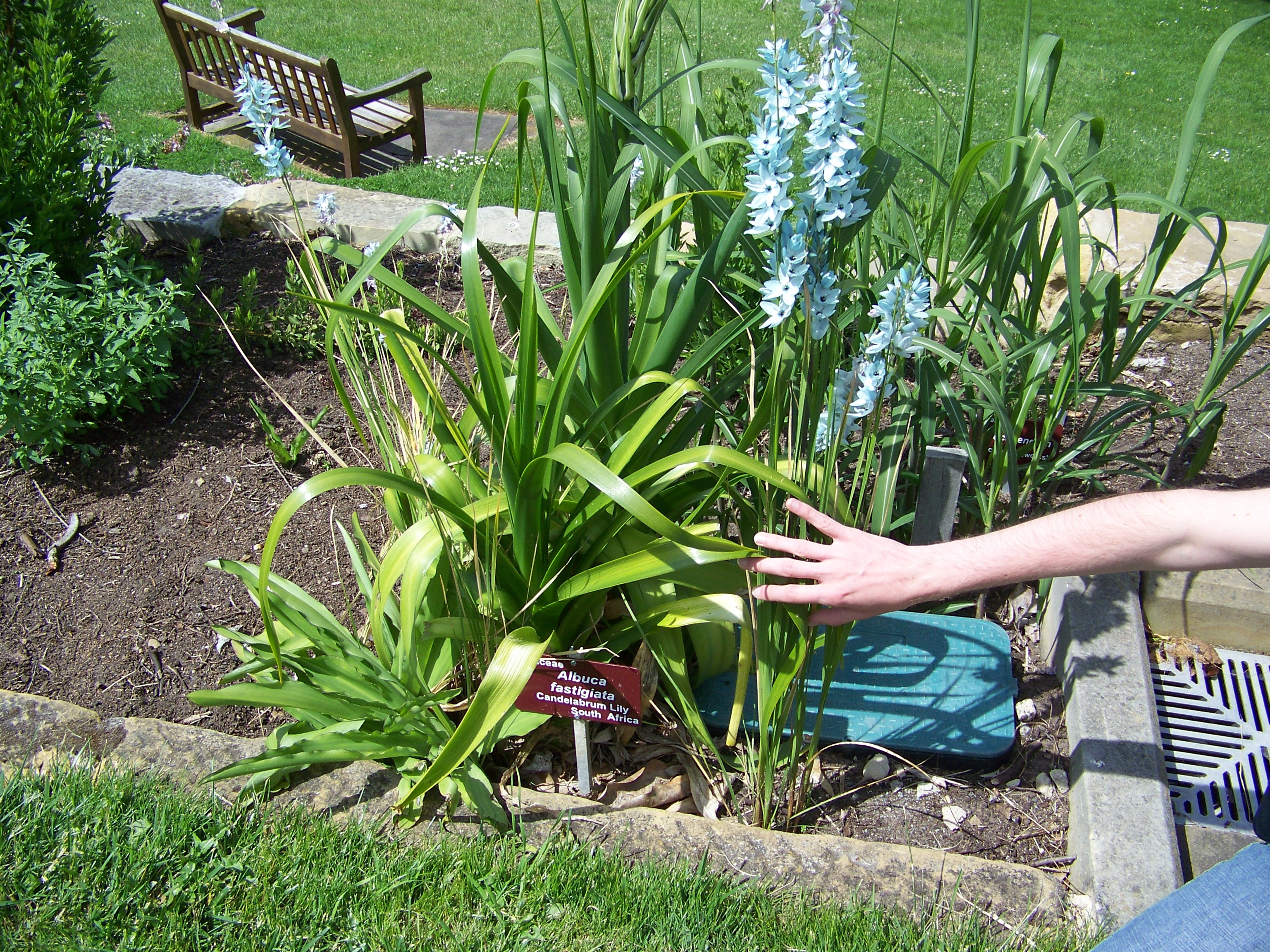 Ixia viridiflora among leaves of Albuca fastigiata, in the Royal Botanical Gardens, Hobart.